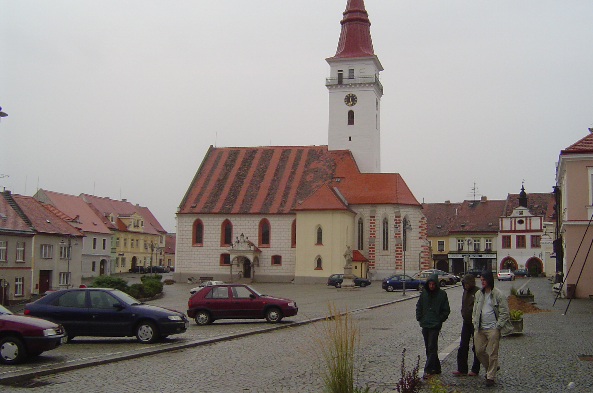 Saint Stanislas church in Jemnice, Třebíč District, Czech Republic.